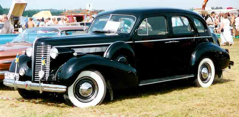 Buick Roadmaster Series 80 Model 81 4-Door Touring Sedan